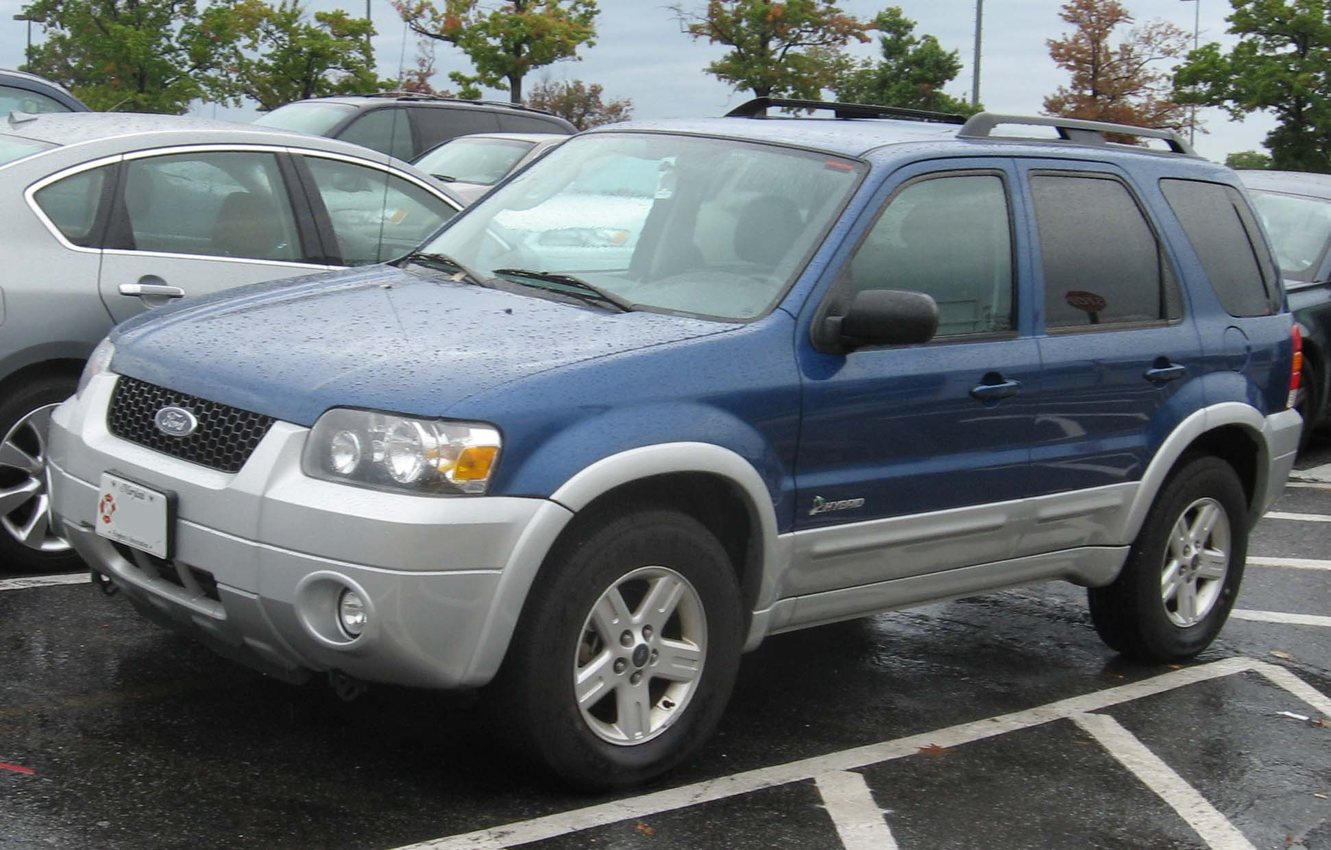 2005-2007 Ford Escape Hybrid photographed in College Park, Maryland, USA.